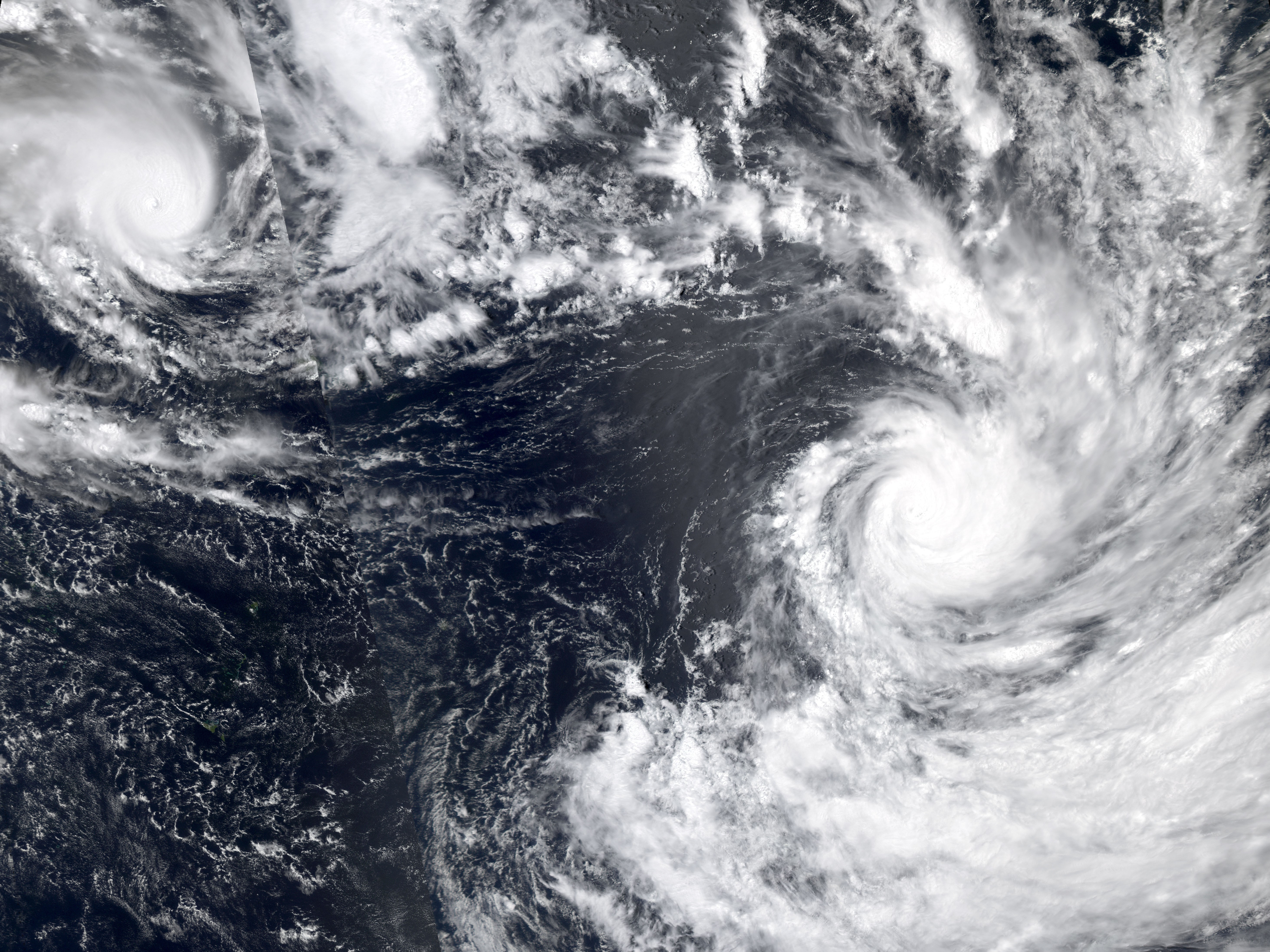 A strengthening Cyclone Olaf and a weakening Cyclone Nancy eye each other across the South Pacific in this Moderate Resolution Imaging Spectroradiometer (MODIS) image from February 15, 2005. As of the afternoon of February 15, Olaf was approaching Category 5 status, with sustained winds of 135 knots and gusts up to 165 knots. According to the Joint Typhoon Warning Center, waves were estimated to be as high as 47 feet. Although Nancy was a Category 4 storm in its early stages, by February 15, the storm had weakened. Sustained winds were 85 knots, with gusts up to 115 knots. Wave heights could be as high as 27 feet. Unlike Olaf, Nancy was predicted to weaken as it moved south over subsequent days. Predicting how two powerful storms will interact as they approach each other is a difficult task. Although it is unlikely that the two storms would join together “eye-to-eye,” to form a single massive storm, it is likely they could influence each other's speed and direction. When two storms are within about 1,000 kilometers of each other, their trajectories begin to be influenced by the large-scale atmospheric circulation of the other. For example, if one storm is much stronger than the other, the weaker storm may be tugged off course by the powerful processes that are drawing air into the larger storm. In some cases, this can result in one storm seeming to “orbit” the other. The interaction is called the Fujiwara effect, after a Japanese meteorologist who first described it. This image was made by combining observations form the Moderate Resolution Imaging Spectroradiometer (MODIS) on NASA’s Terra and Aqua satellites. The part of the image that shows Cyclone Nancy was captured by Aqua MODIS, while the part that shows Olaf was captured by Terra MODIS.